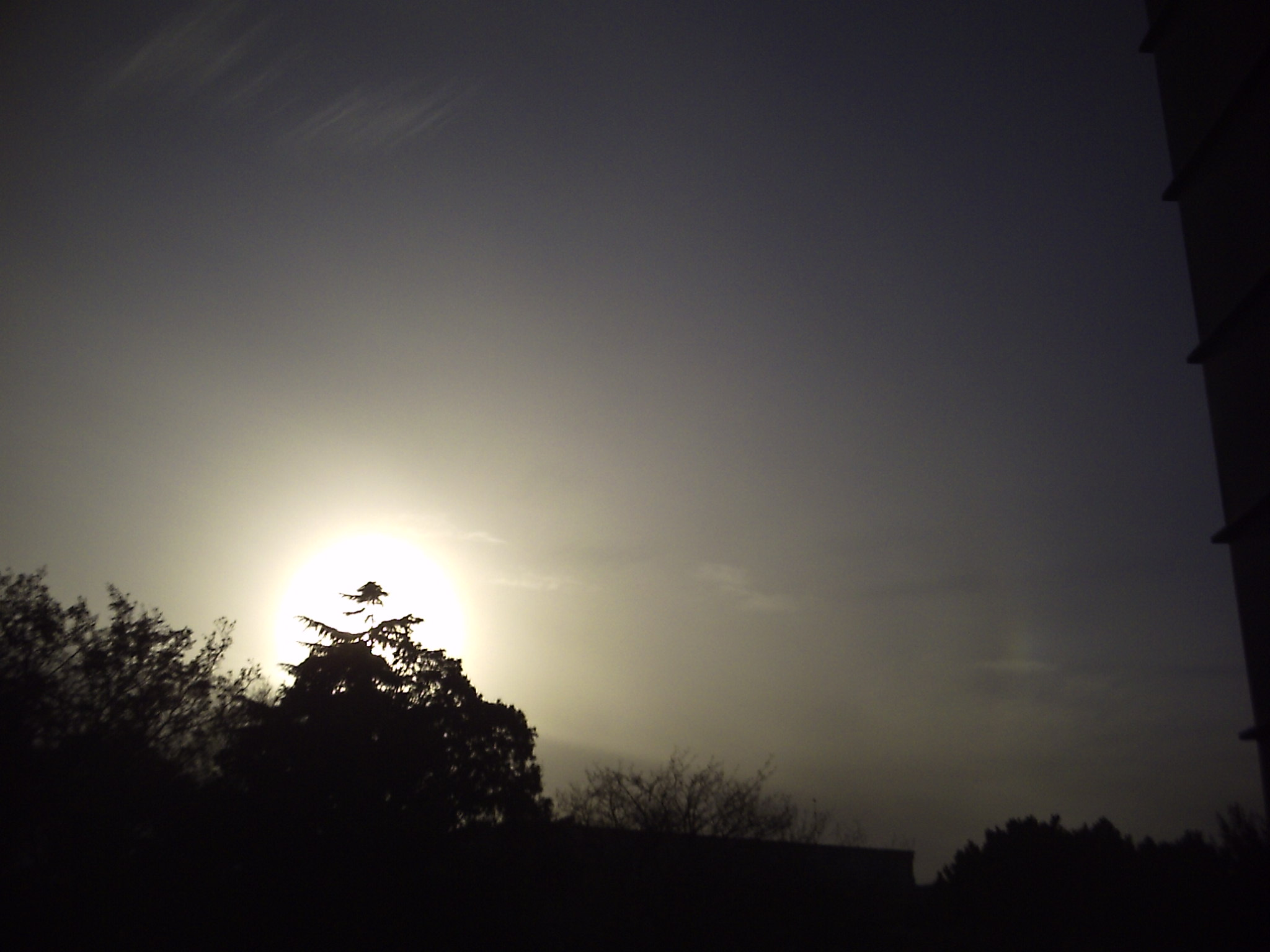 Cirrostratus with faint mock sun and patch of cirrus fibratus at top left